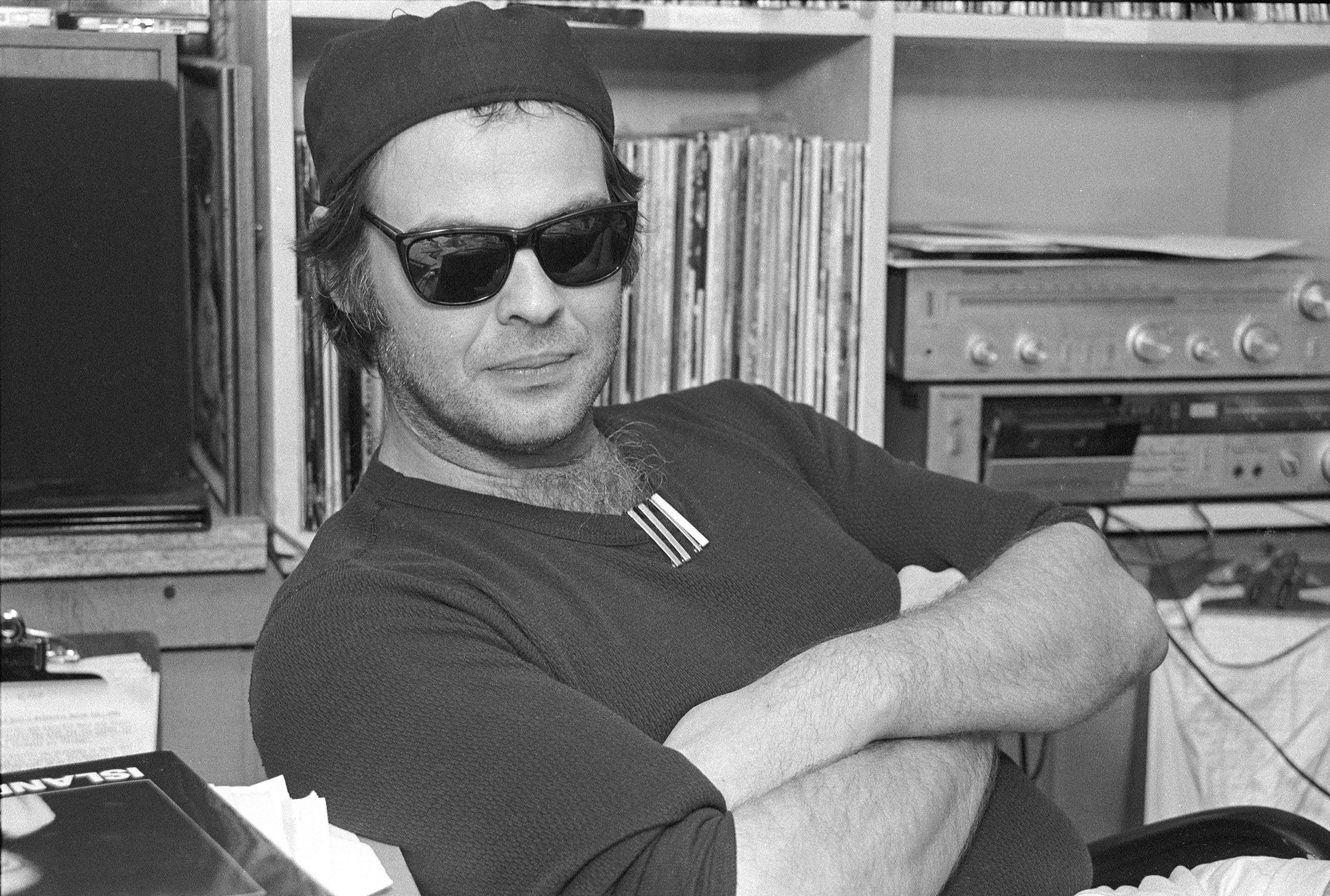 Steve McClellan in his office at First Avenue, July 1986